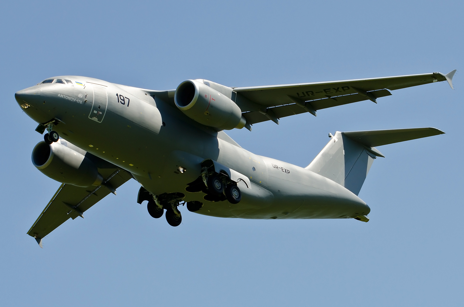 Antonov An-178 in military grey colours